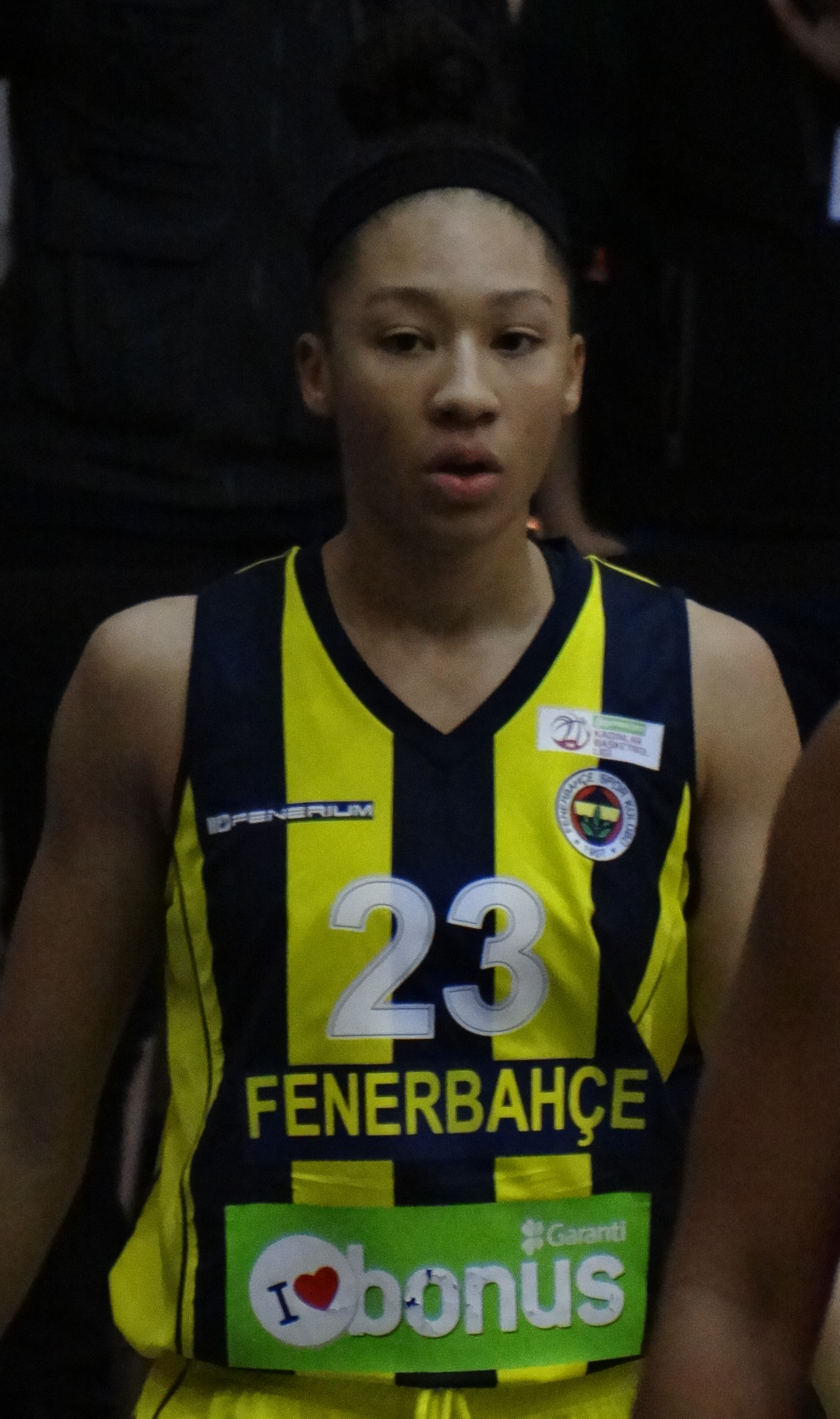 Aerial Powers Fenerbahçe Women's Basketball vs Mersin Büyükşehir Belediyesi (women's basketball) TWBL 20180121